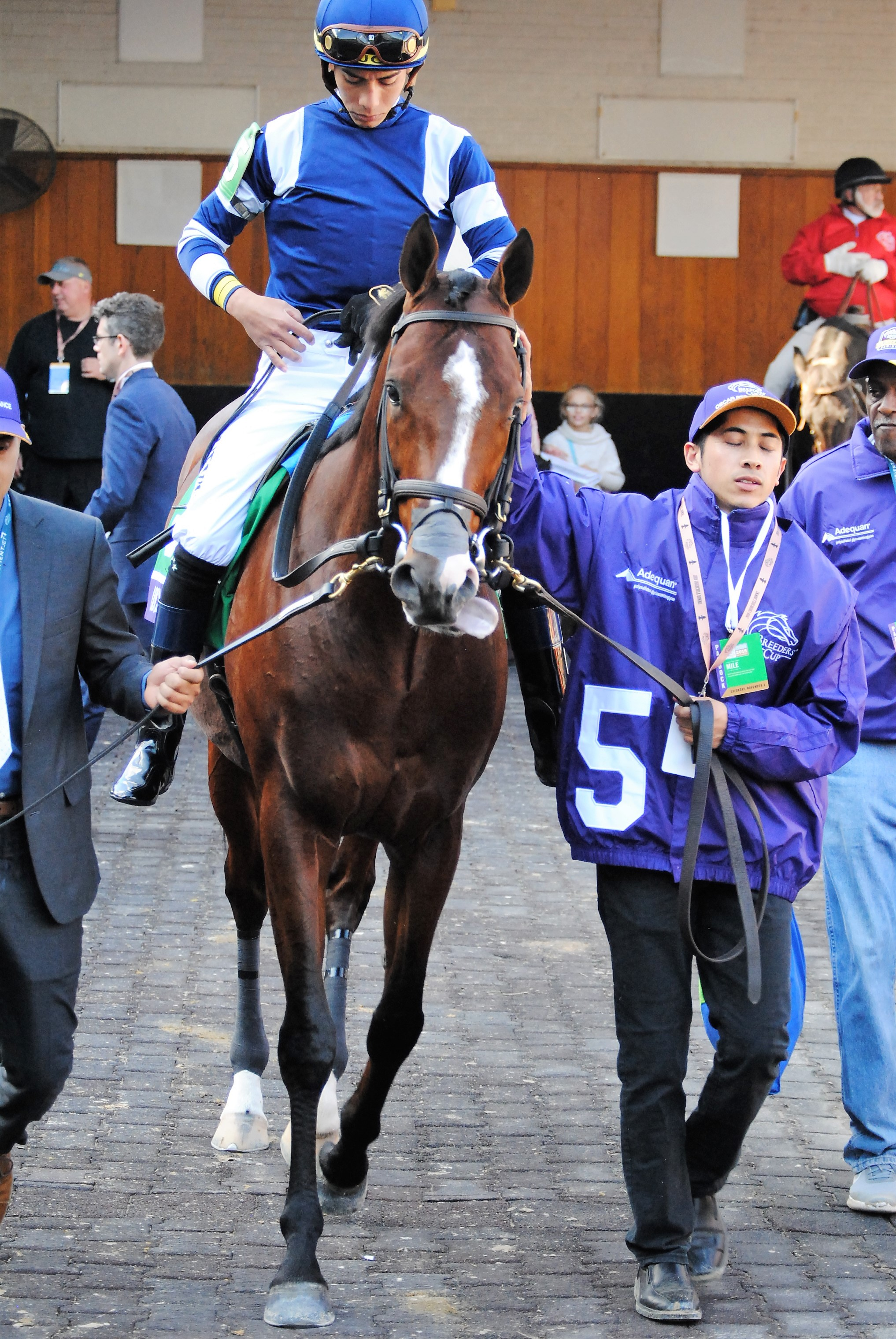 Oscar Performance and Jose Ortiz at the 2018 Breeders' Cup